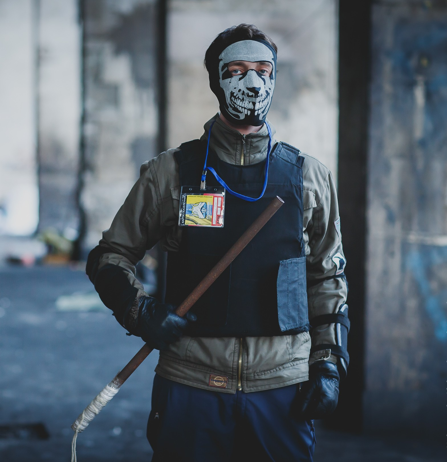 Activist from Spilna Sprava, Kiev, Ukraine, February 26, 2014.